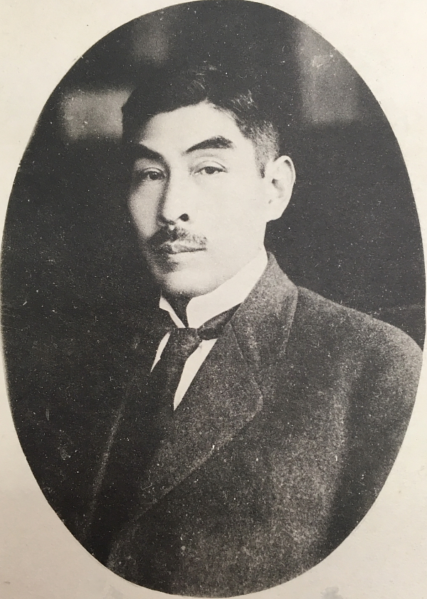 Matsunaga Yasuzaemon (taken before 1923)